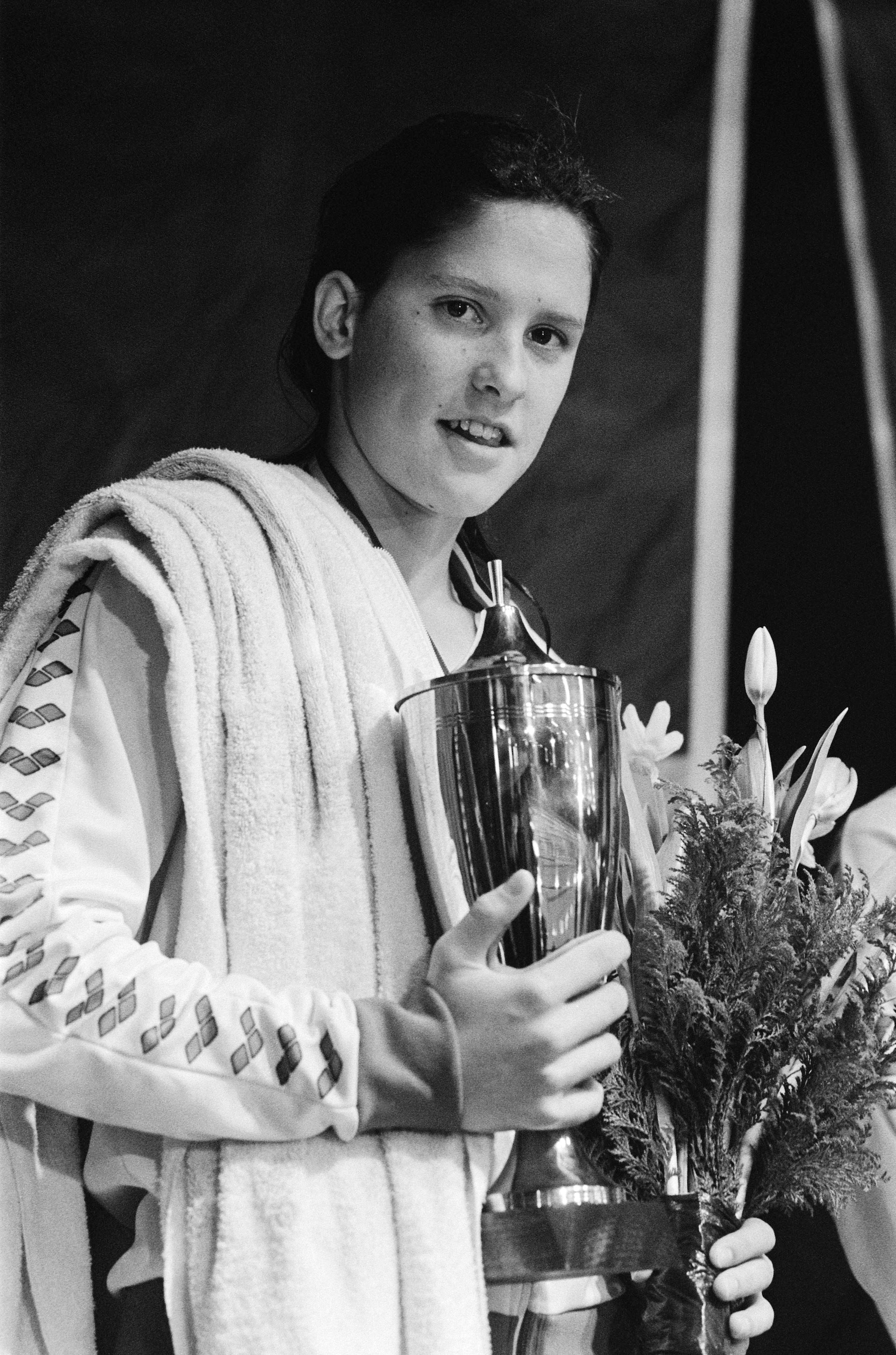 Cynthia Woodhead at the 1980 Internationale Zwemwedstrijden Speedo Meet in Amersfoort, Netherlands